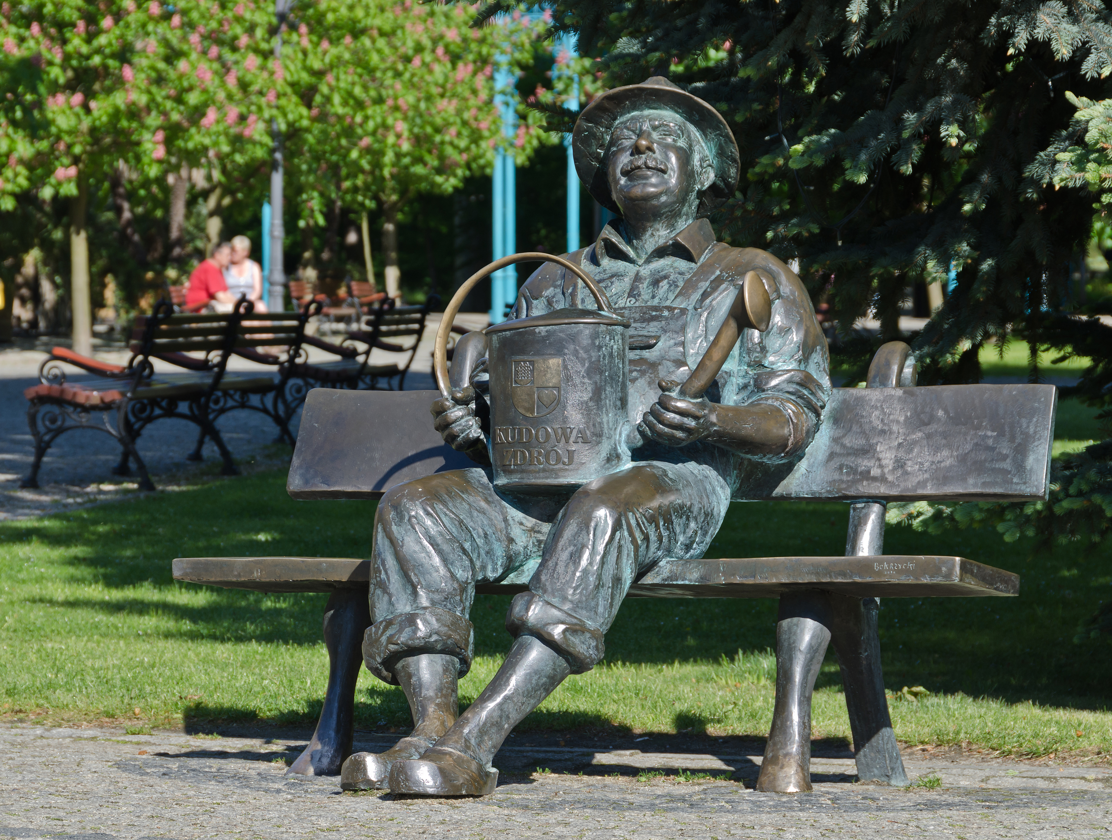 Spa park in Kudowa-Zdrój, bench with the gardener Ta fotografia przedstawia zabytek wpisany do rejestru zabytków pod numerem ID 592777